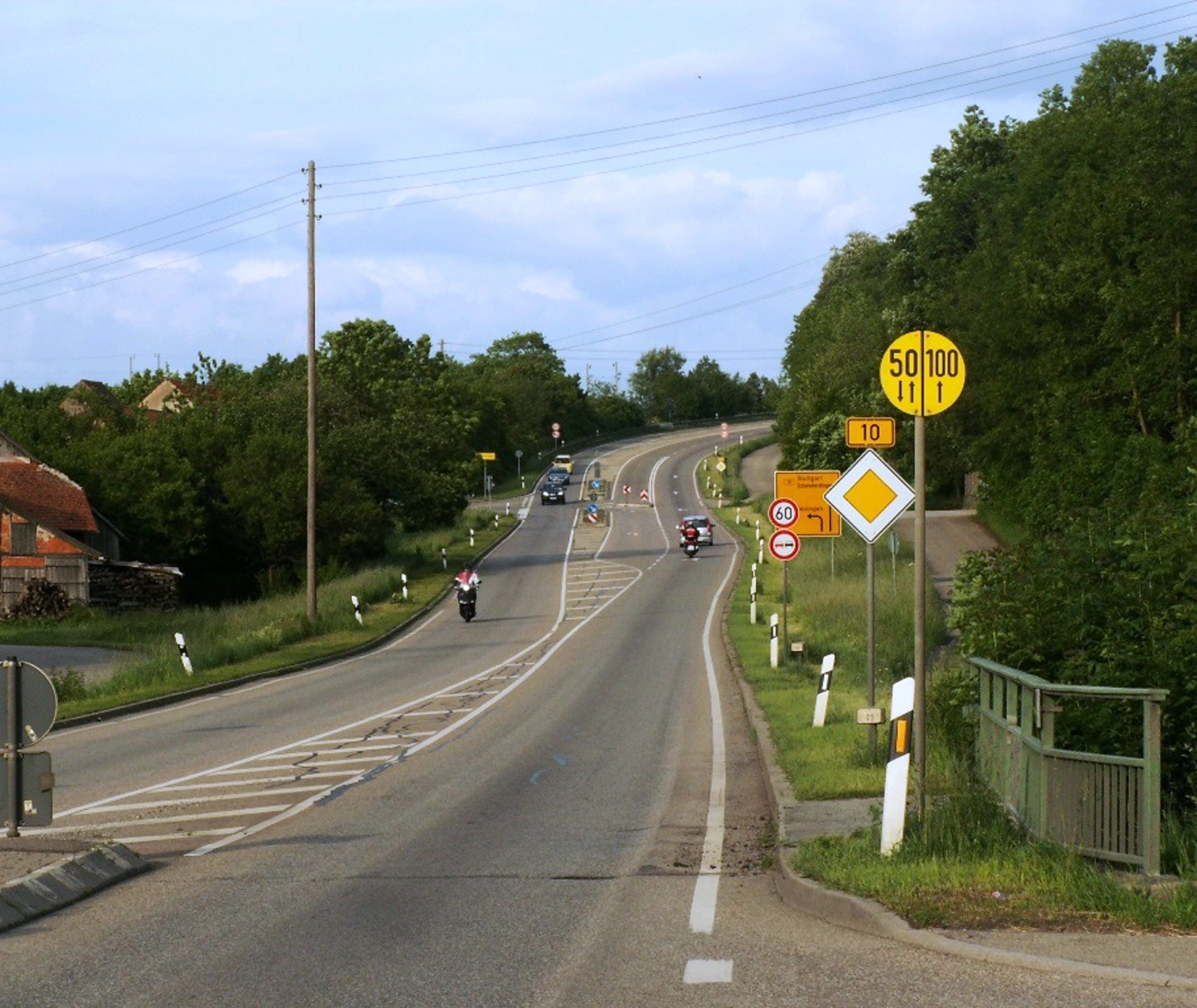 German road B10 at Enzweihingen climbing up from the river Enz